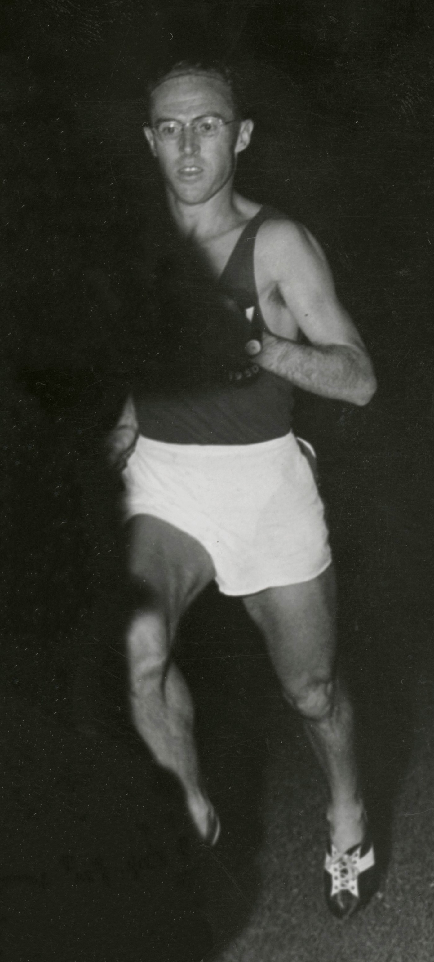 Les Perry in the first lap of the Men's Invitation 1500 meters event - Amateur athletic meeting at Malvern (Victoria).